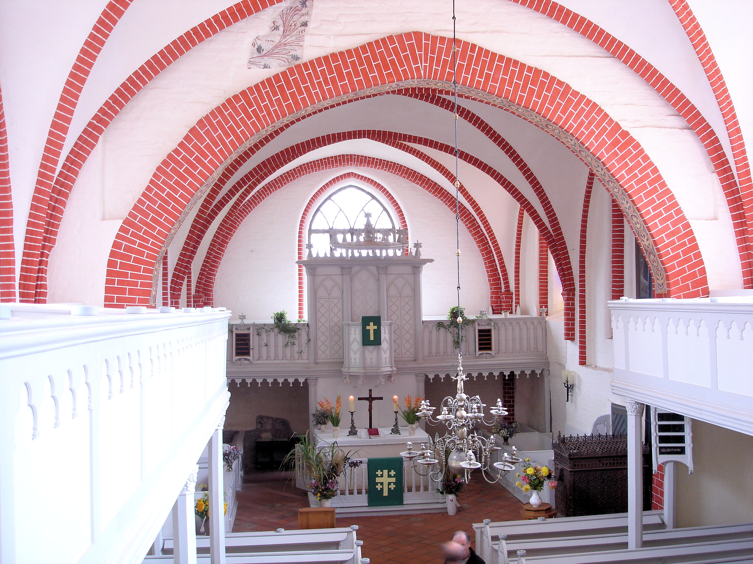 Church in Beidendorf, Mecklenburg, Germany